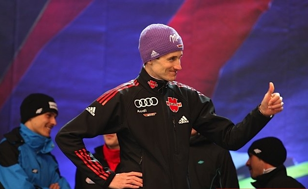 Martin Schmitt during Adam's Bull's Eye on March 26, 2011 in Zakopane.